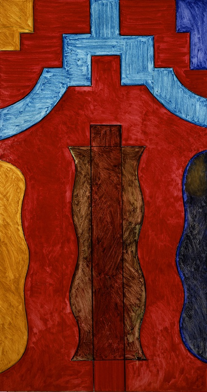 Oil on Canvas